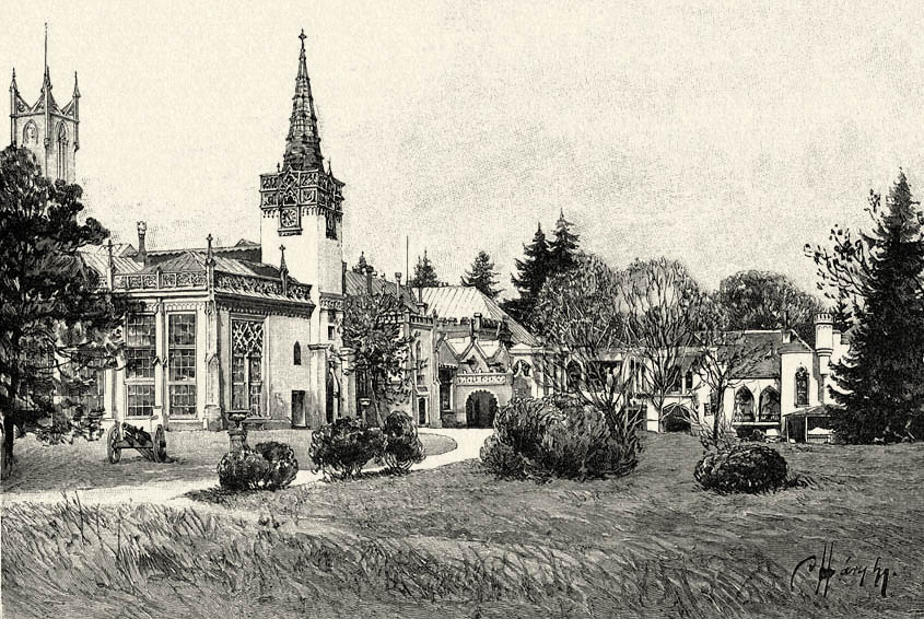 Parchovany Castle